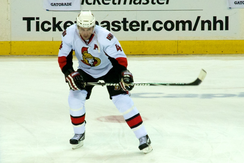 Chris Phillips of the Ottawa Senators during warmups against the Washington Capitals.